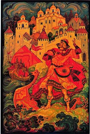 Palekh painting, Sadko.